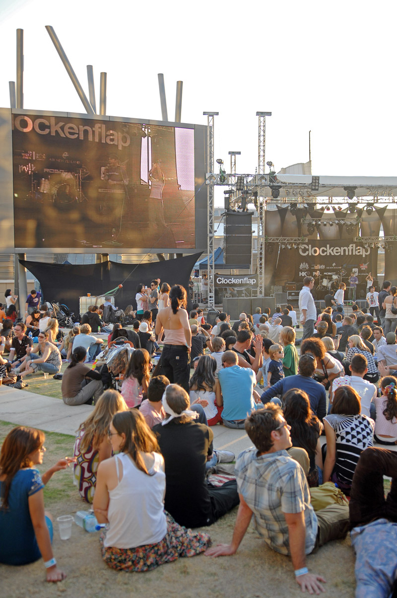 Clockenflap event.